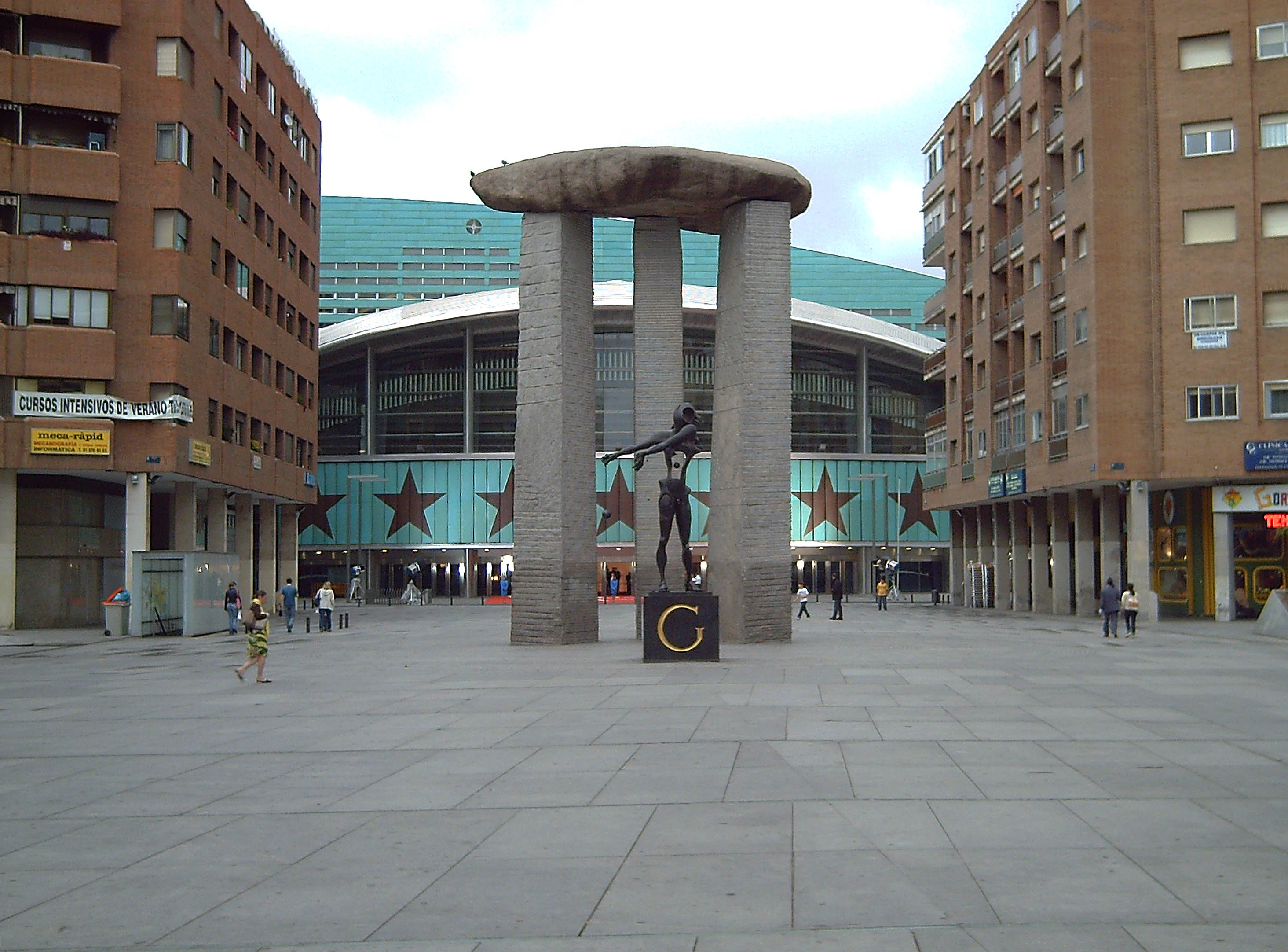 Plaza de Dalí ("Dalí Square") in Madrid (Spain). In the background, the Palacio de Deportes de la Comunidad de Madrid (indoor sports building).